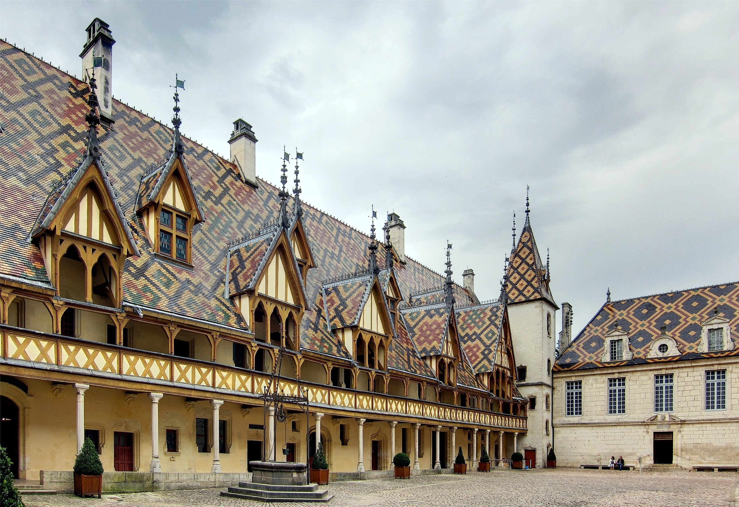 The yard of the Hôtel-Dieu (1443) in Beaune, France.